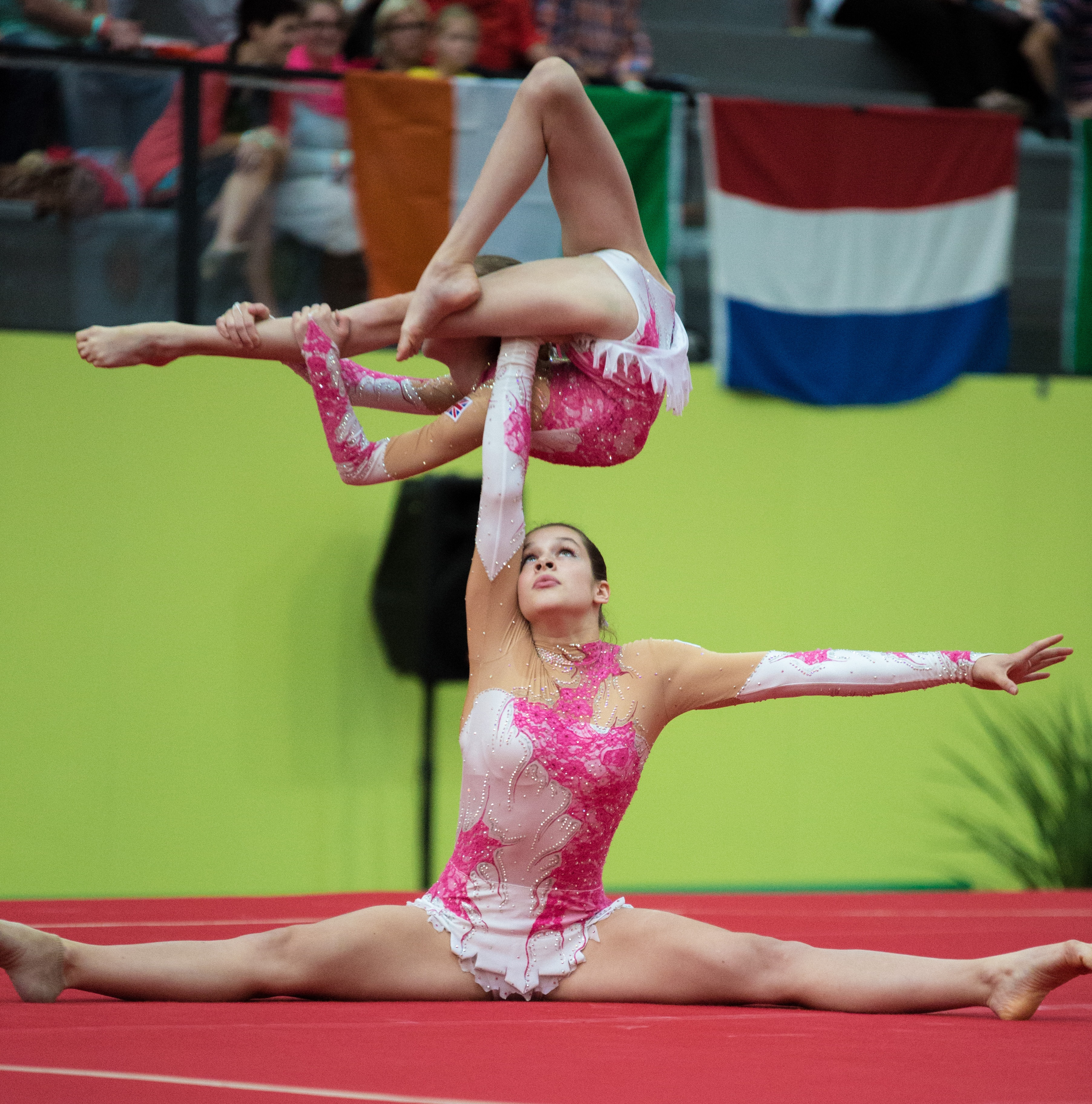 Taken at the European Acrobatic Championships in Odivelas, Portugal in 2013. This is the 11-16 Age Group Women's Pair of Grace Tucker and Lucy Gamble.